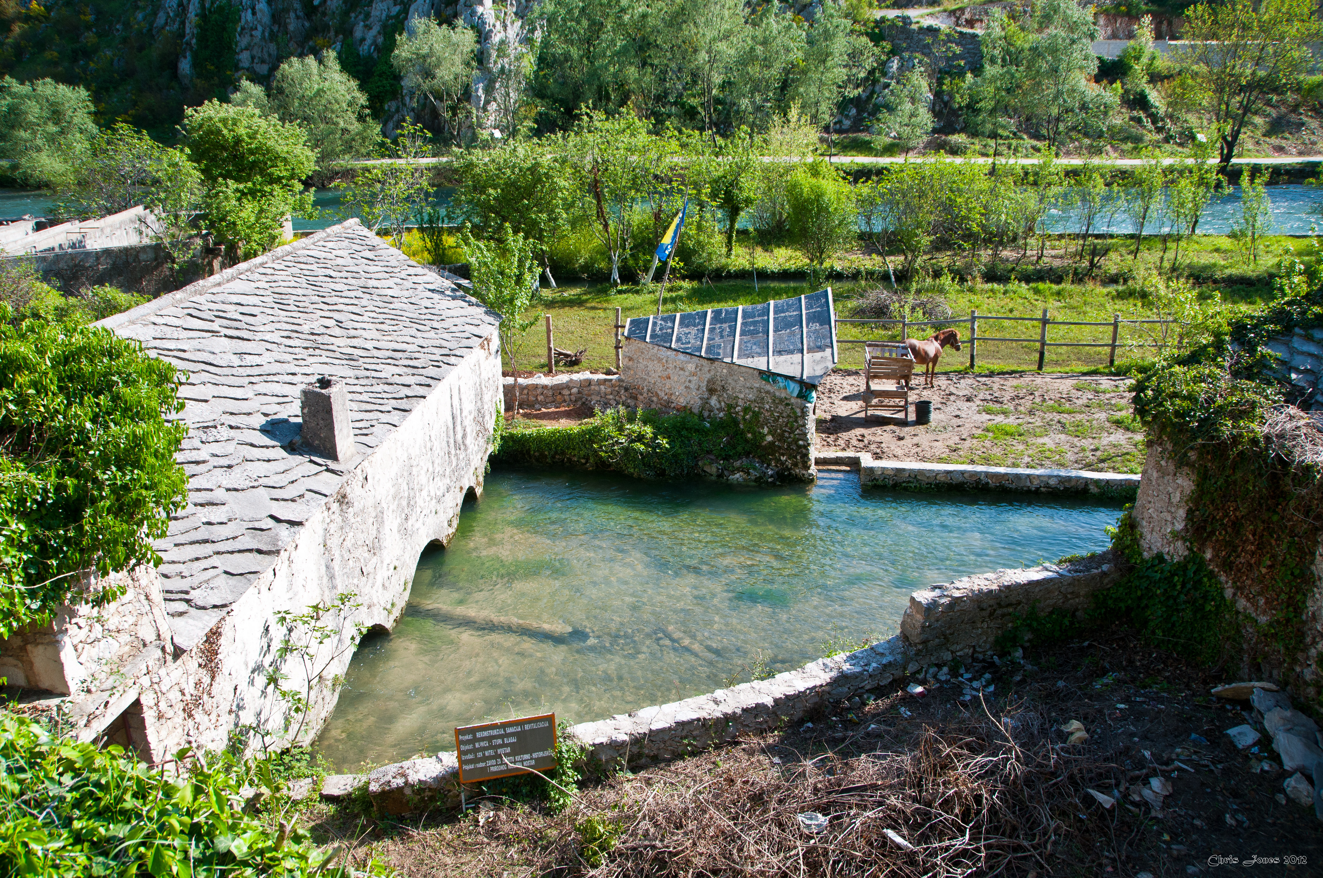 Mostar - Mill on Buna River